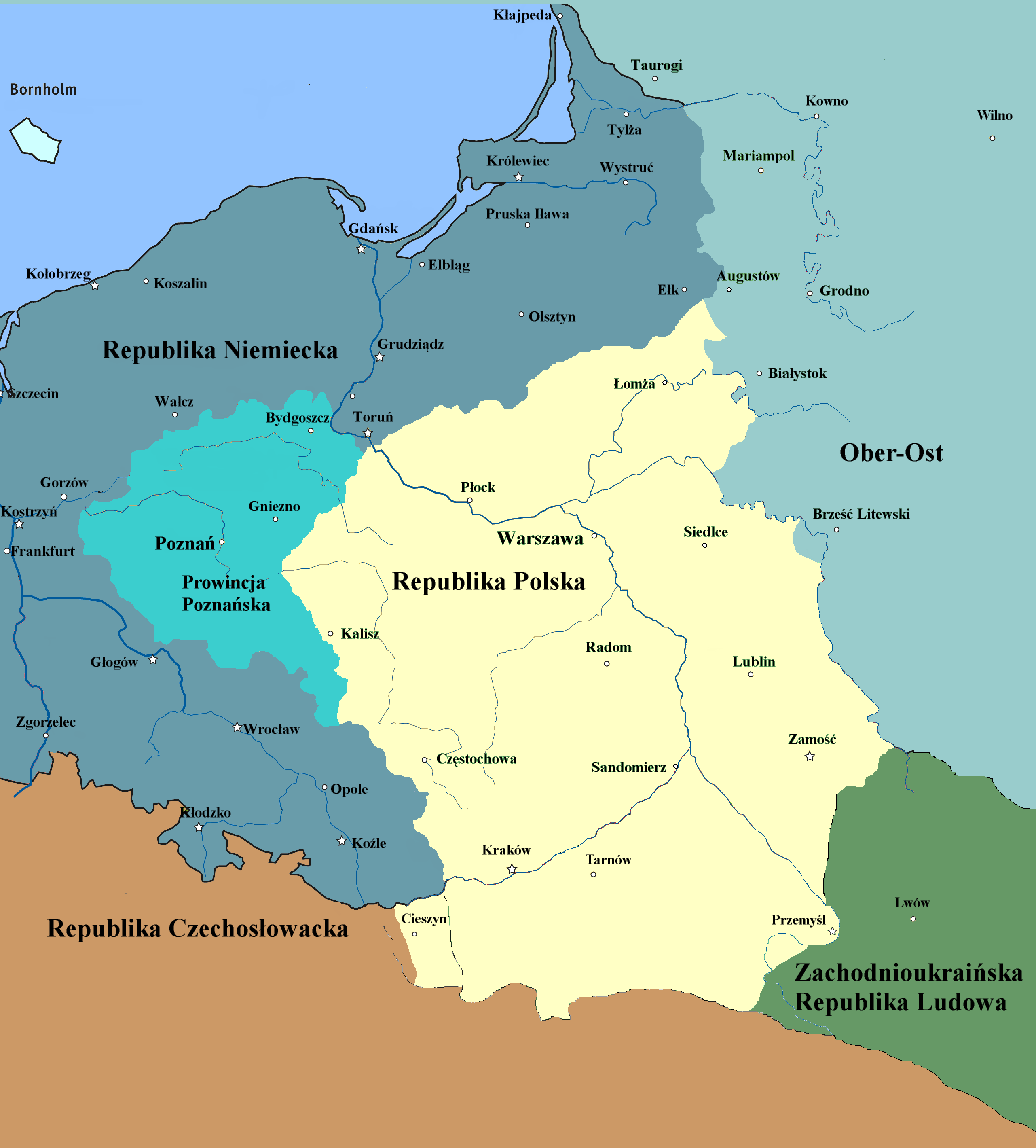 Republic of Poland in mid November 1918